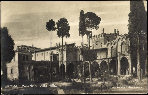 Postcard of Villa Mills (ca. 1900)